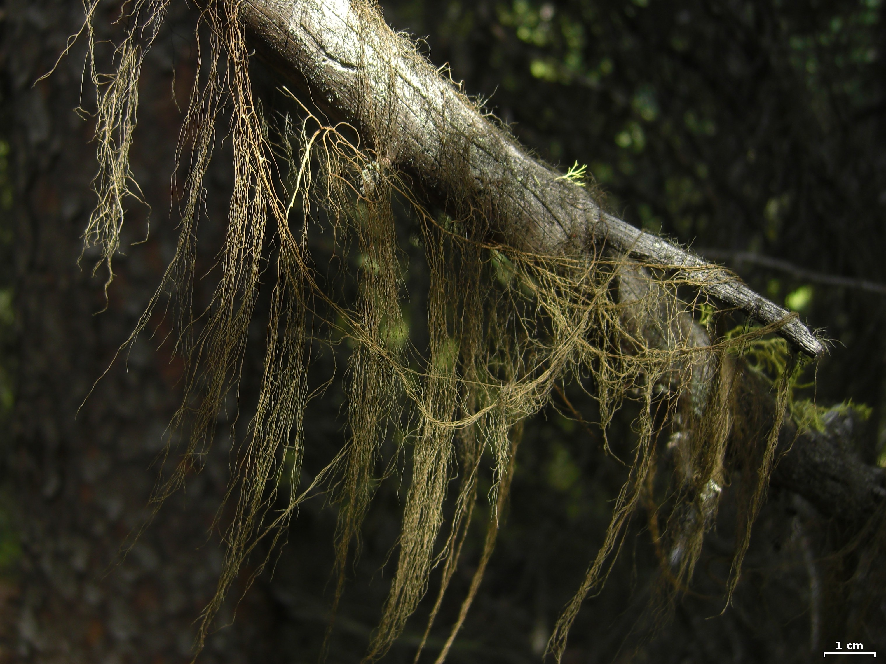 Peyto Lake, Banff, Alberta, 20110717